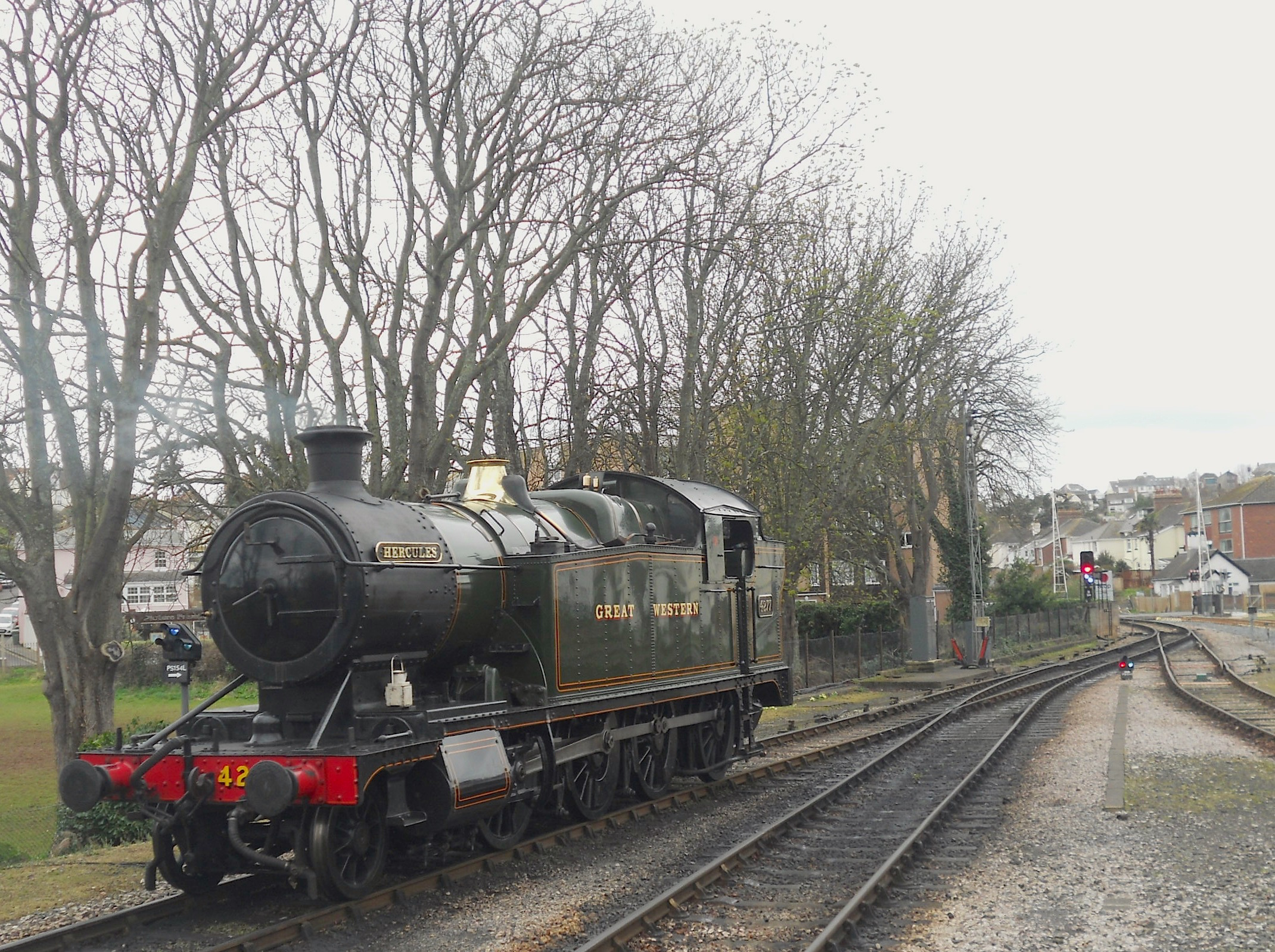 GWR 2-8-0T 42xx Class No. 4277 'Hercules' at Paignton Queens Park on the Dartmouth Steam Railway